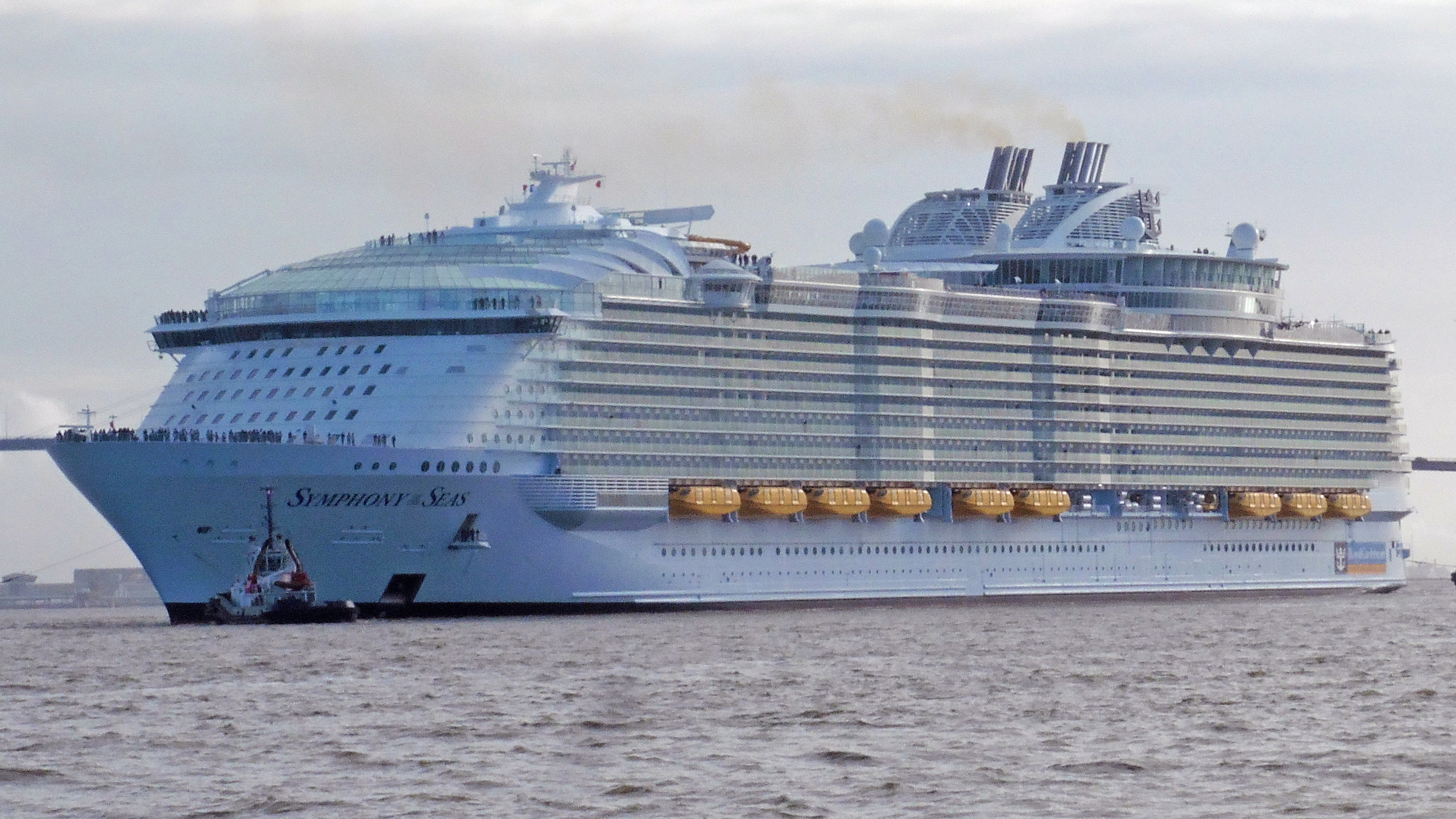 Symphony of the Seas leaving St Nazaire on March 24th 2018